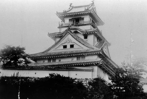 Kochi Castle Keep Tower